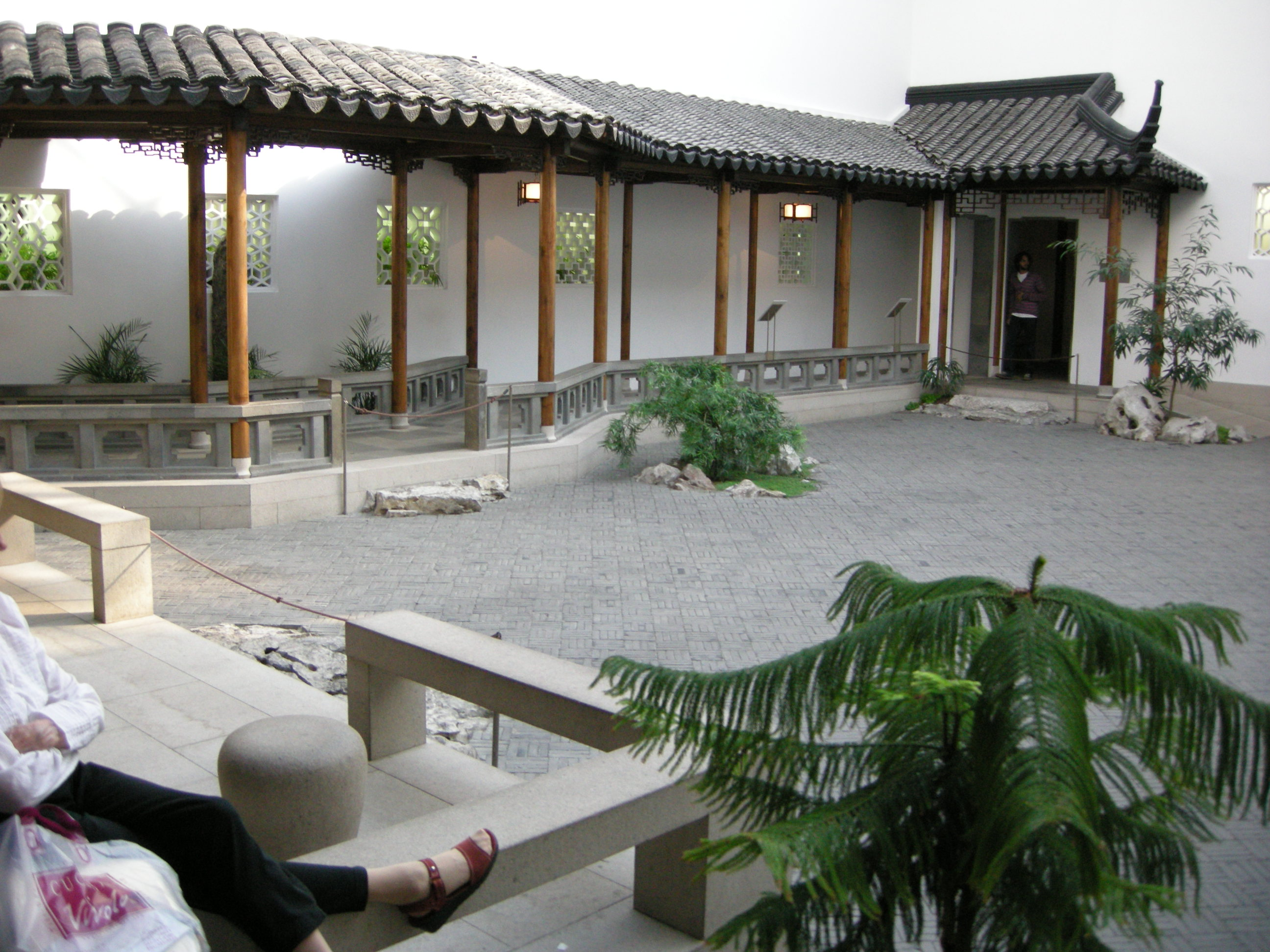 Chinese art in the Metropolitan Museum of Art